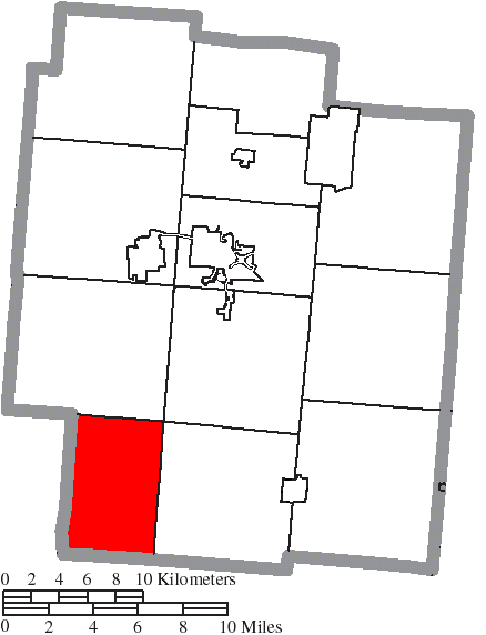 Map of the municipal and township boundaries of Jackson County, Ohio, United States, as of the 2000 census, with the location of Hamilton Township highlighted. Township borders are shown only in unincorporated areas in order to differentiate incorporated and unincorporated areas more clearly.